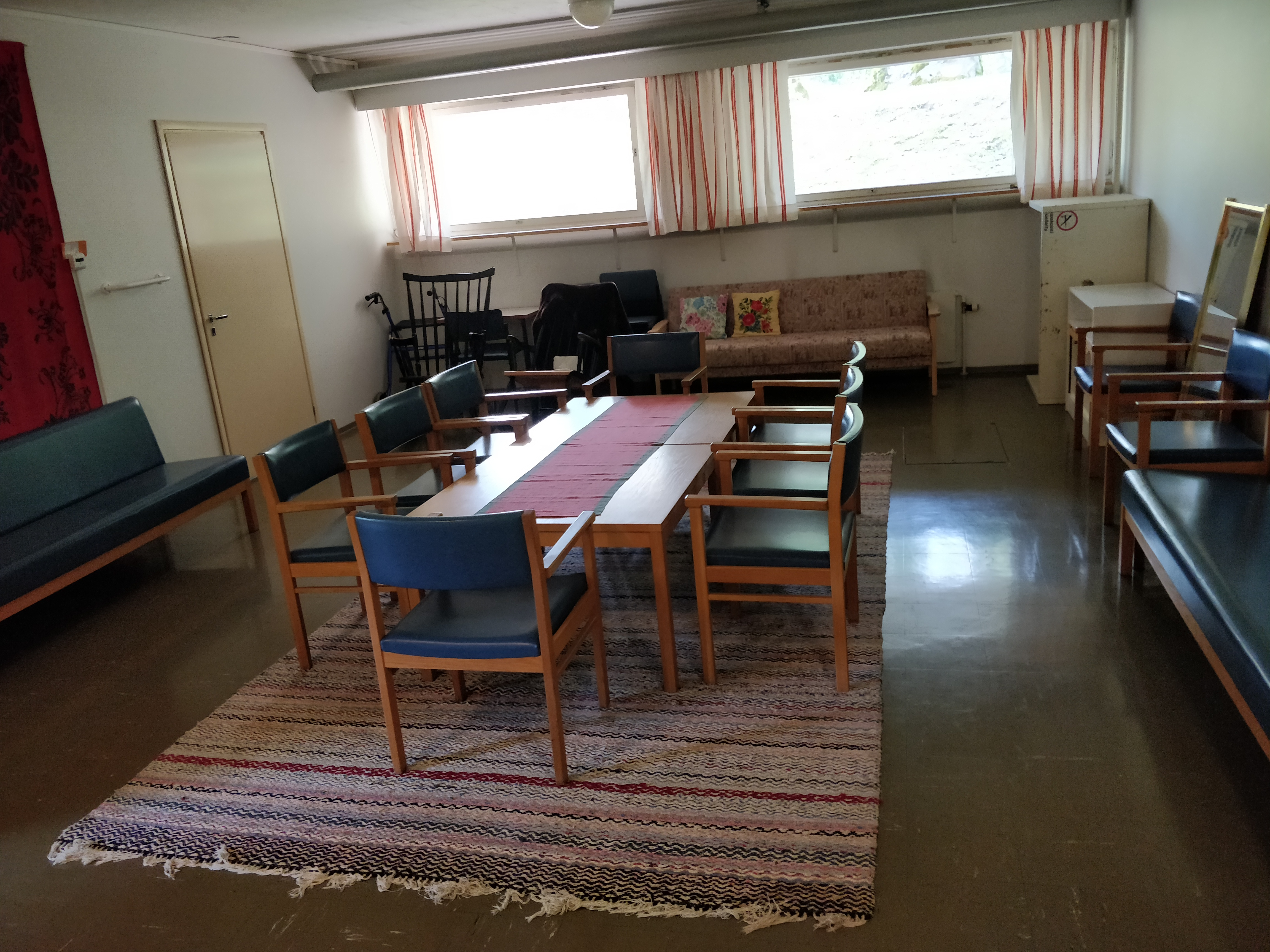 A photograph of a communal living quarter in an apartment building. Taken in district of Lohikoski, municipality of Jyväskylä, Finland.